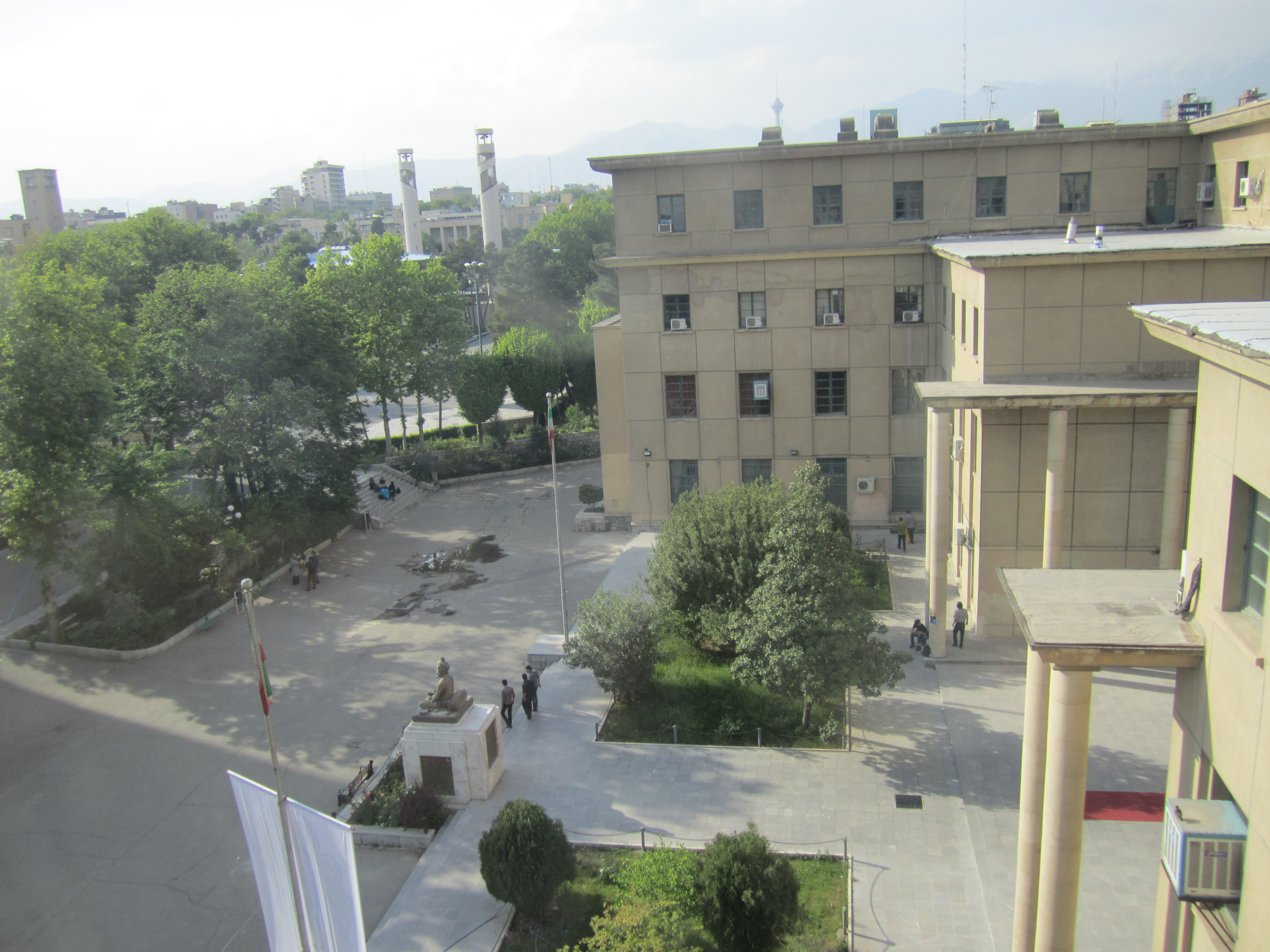 Tehran University School of Literature and Humanities